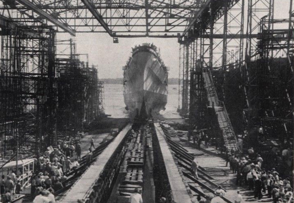 Launch of the U.S. Navy light cruiser USS San Juan (CL-54) at the Fore River Shipyard, Quincy, Massachusetts (USA), on 6 September 1941.